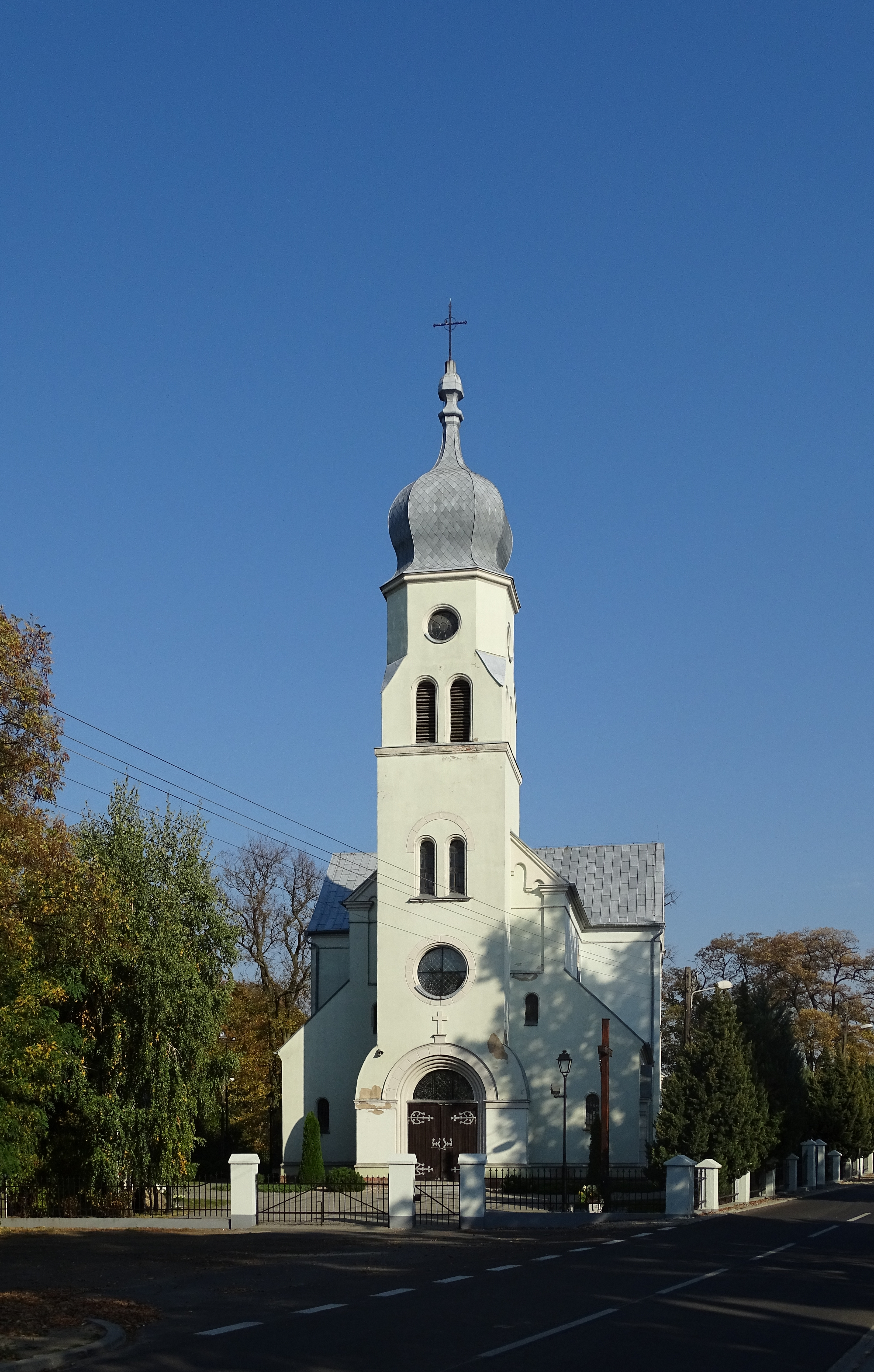 Żydowo, Poznań County, Poland. Parish church of St. Nicholas, completed in 1905.